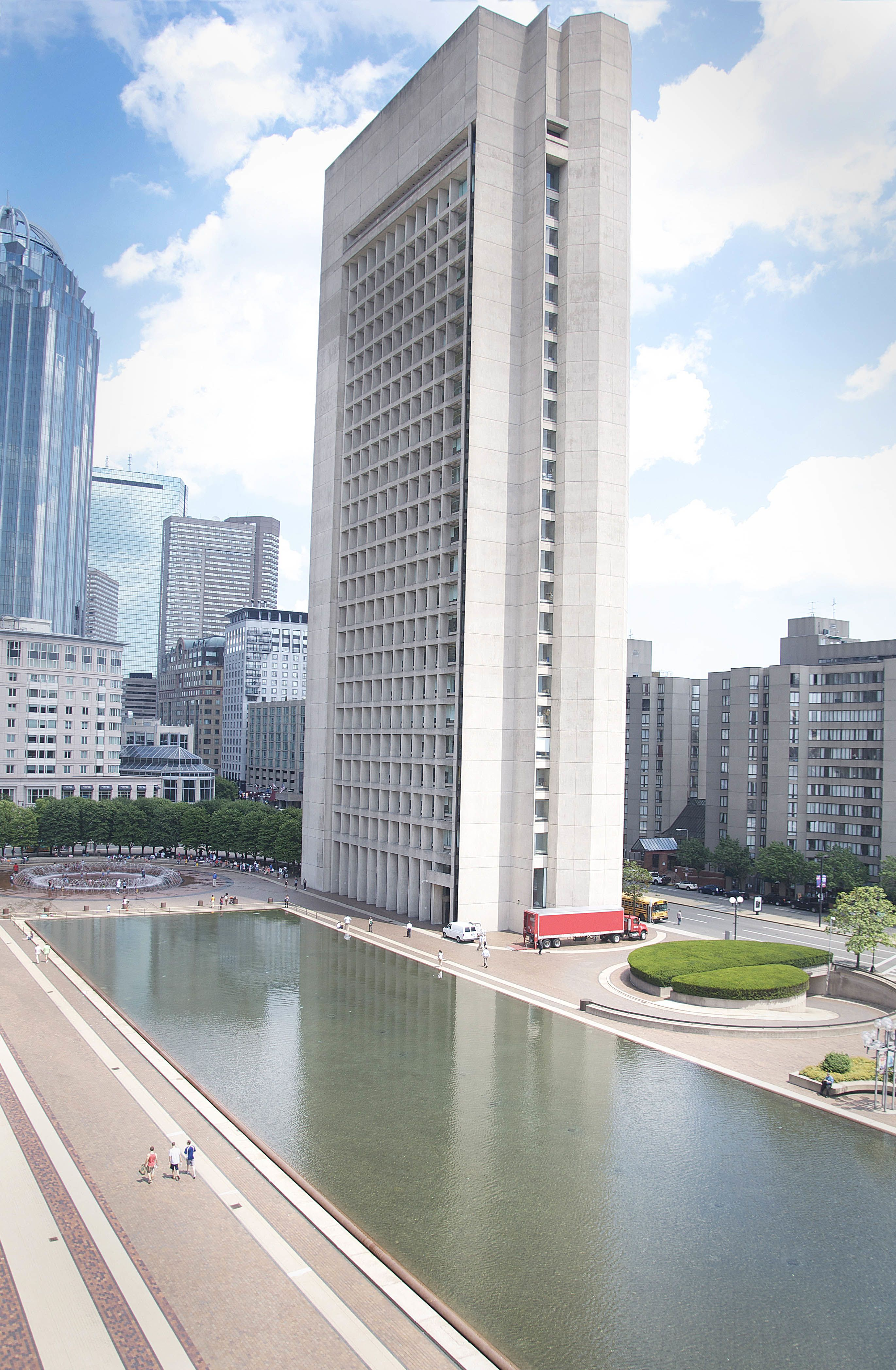 First Church of Christ, Scientist, administration building, Boston, Massachusetts